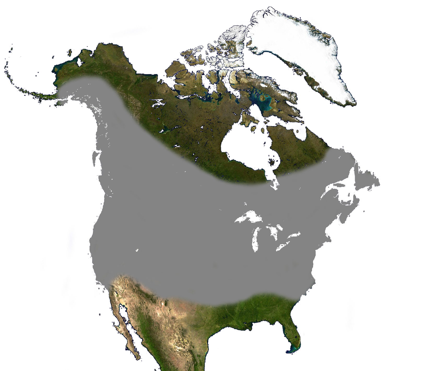 This map shows the range of Myotis lucifugus (Little Brown Bat) across North America.